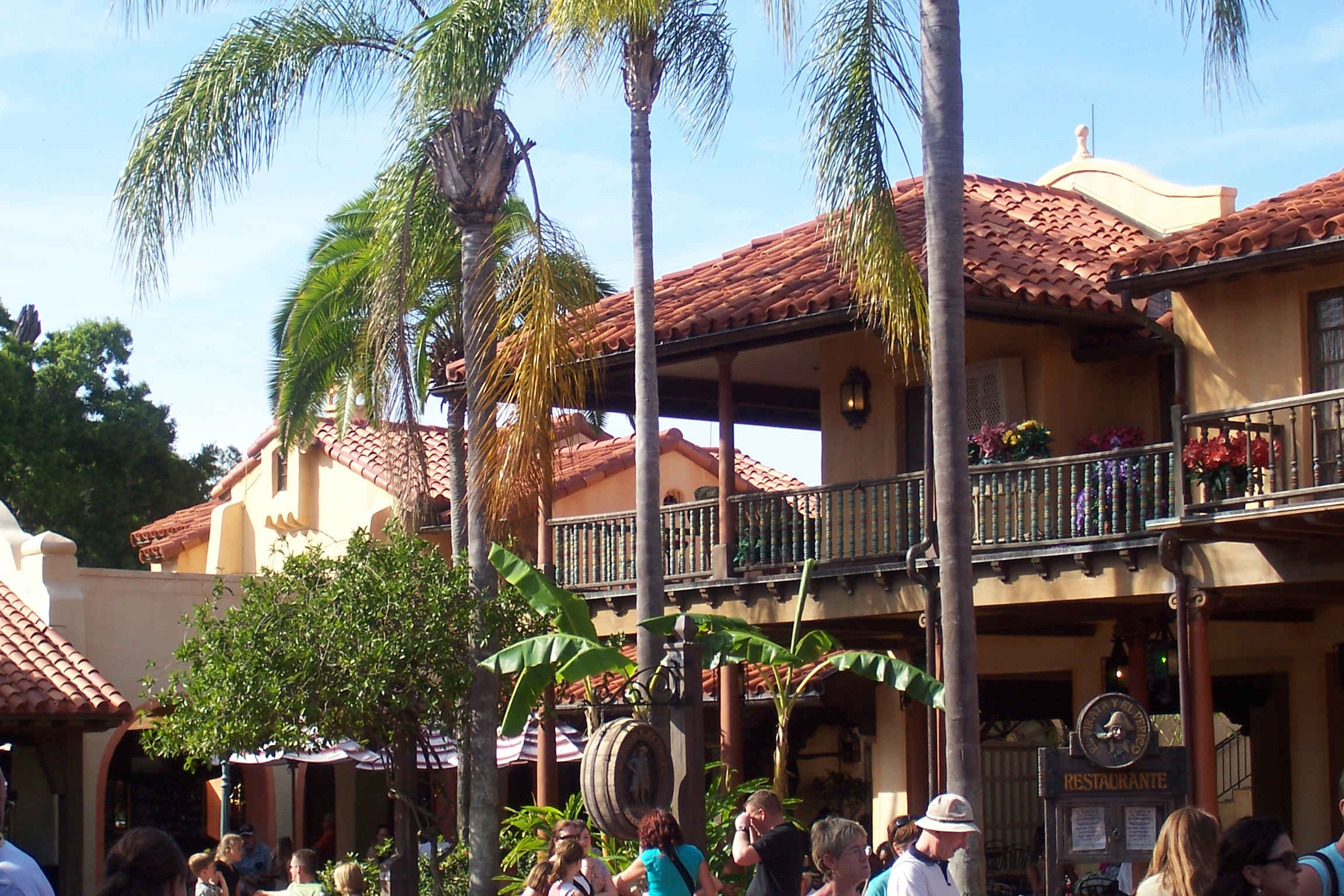 Adventureland as seen from the Pirates of the Caribbean ride exit.